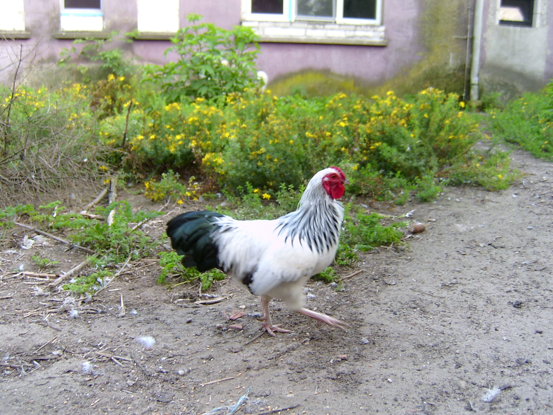 Two years old rooster (domesticated Gallus gallus). Breed "Deutsches Reichshuhn" miniature